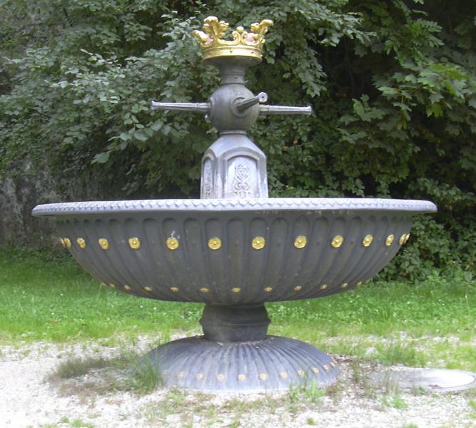 Fountain in Königsbronn, Germany, imitating the town's coat of arms